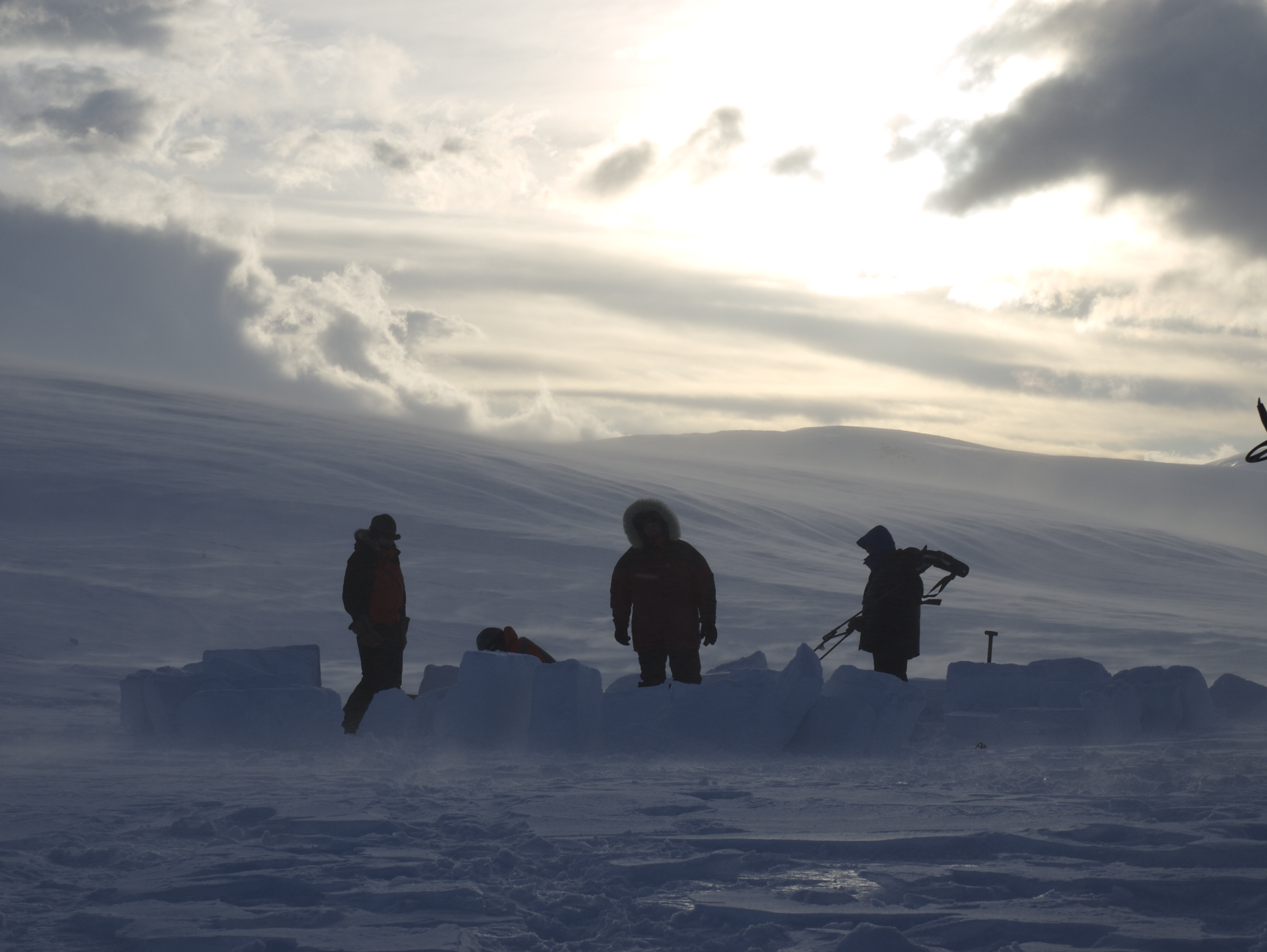 Three men in a middle of an igloo building process in Sarek, Sweden